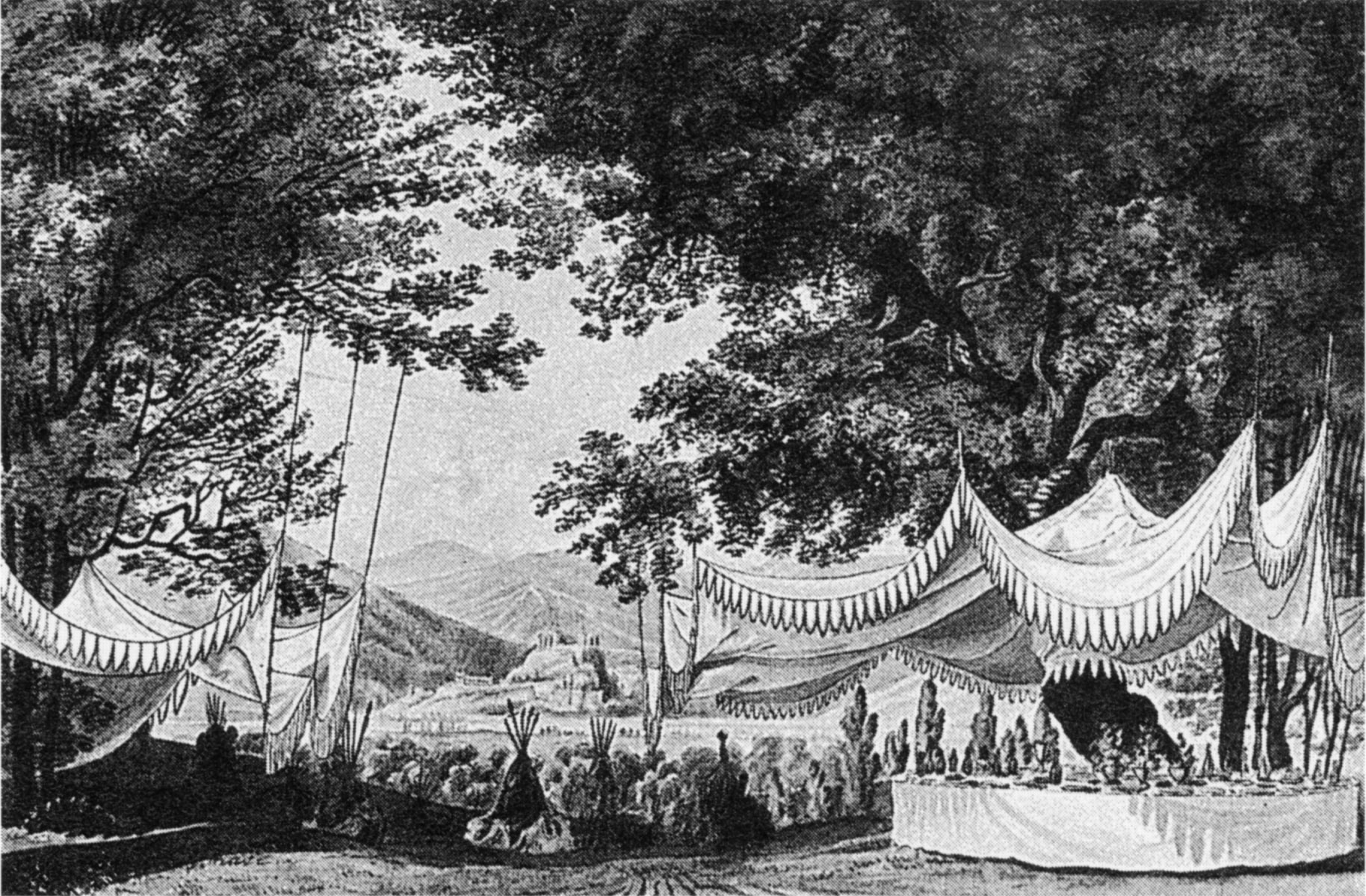 Set design for the Act 3 finale of the opera Der Freischütz by Carl Maria von Weber, as performed in the 1821 premiere at the Schauspielhaus, Berlin